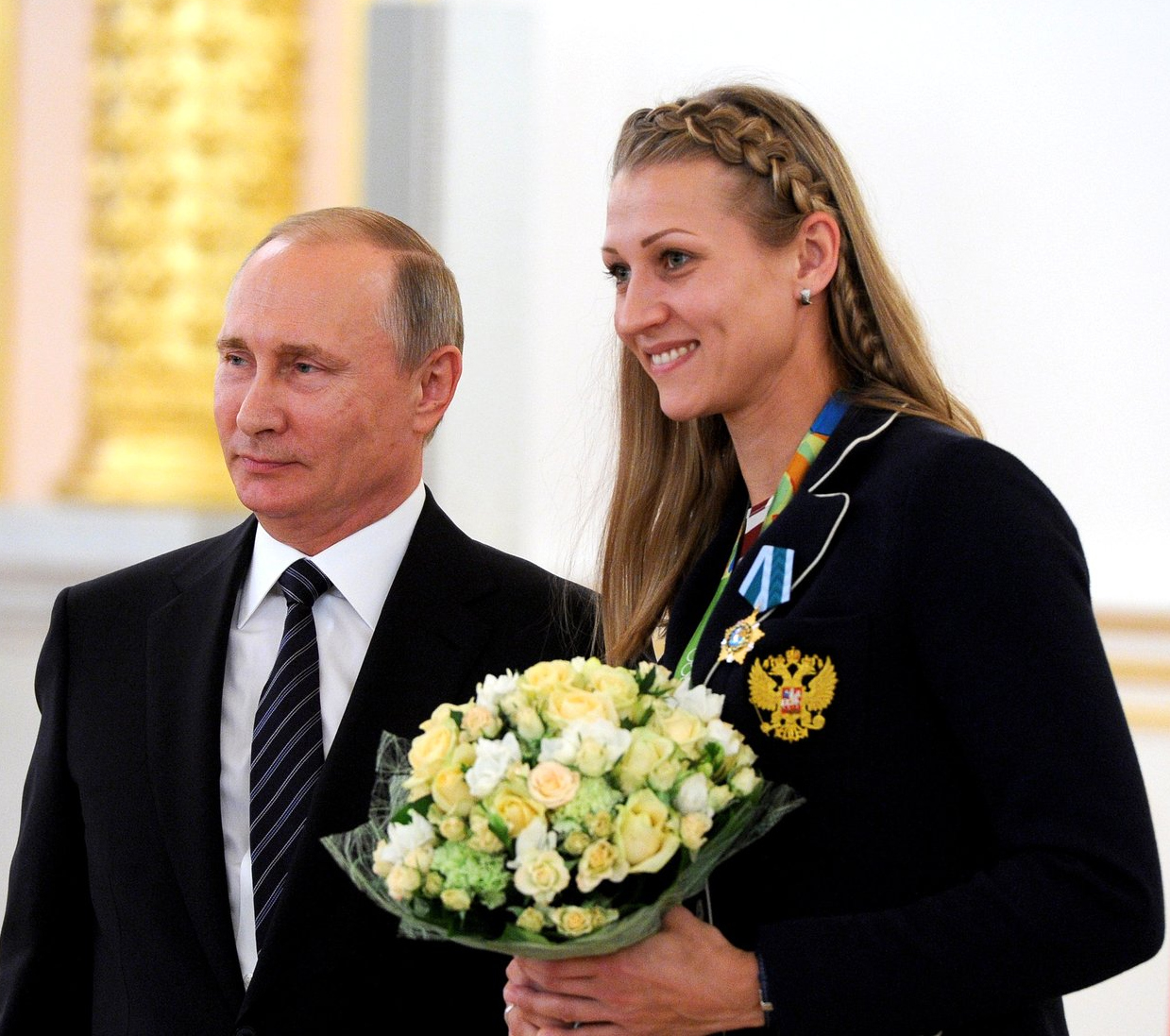 Vladimir Putin presented state awards to the Russian athletes who won gold medals at the 2016 Olympic Games in Rio de Janeiro (Brazil).